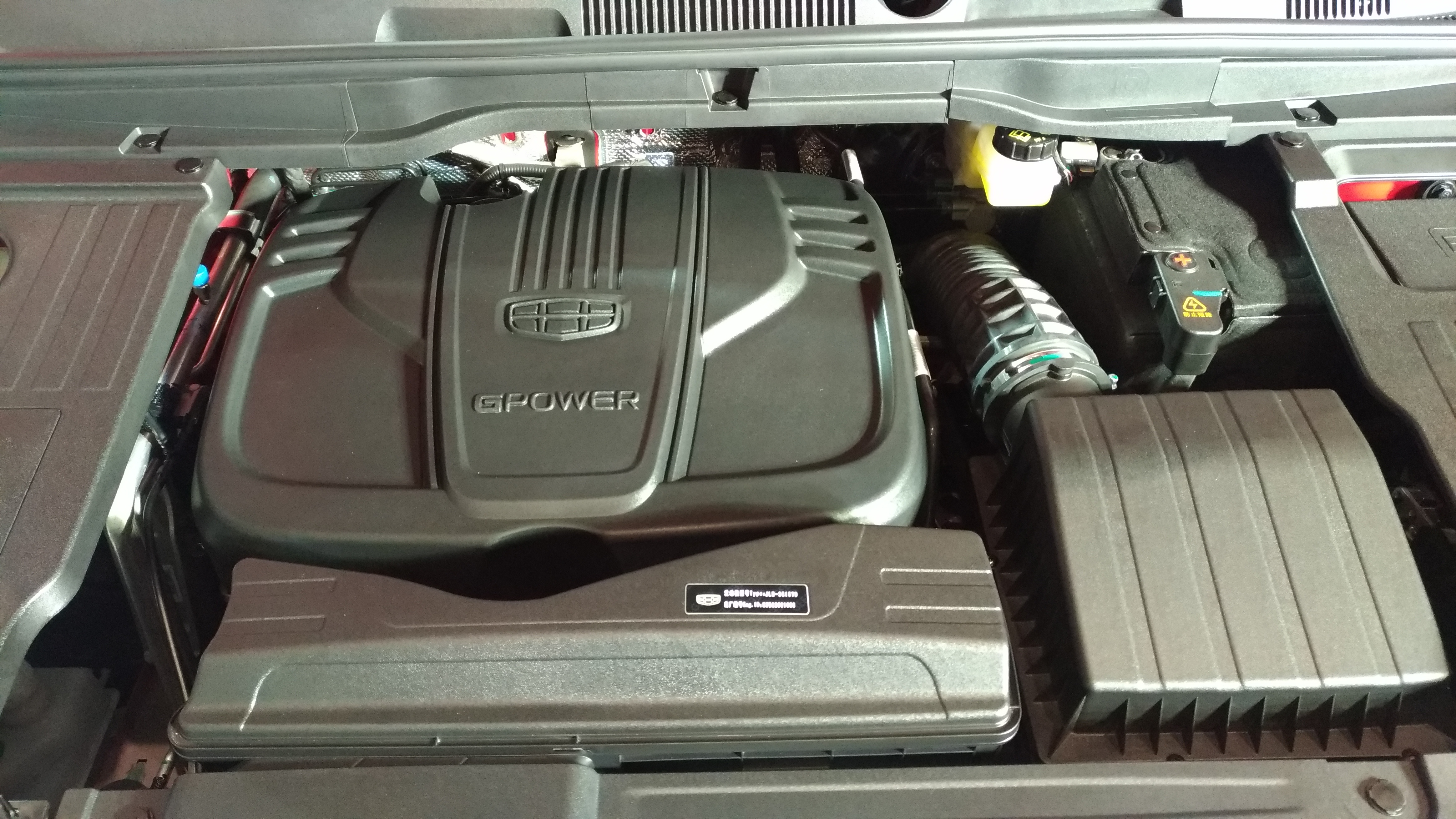 2019 Geely Coolray engine bay. Photographed at U.P. Town Center in Quezon City, Philippines